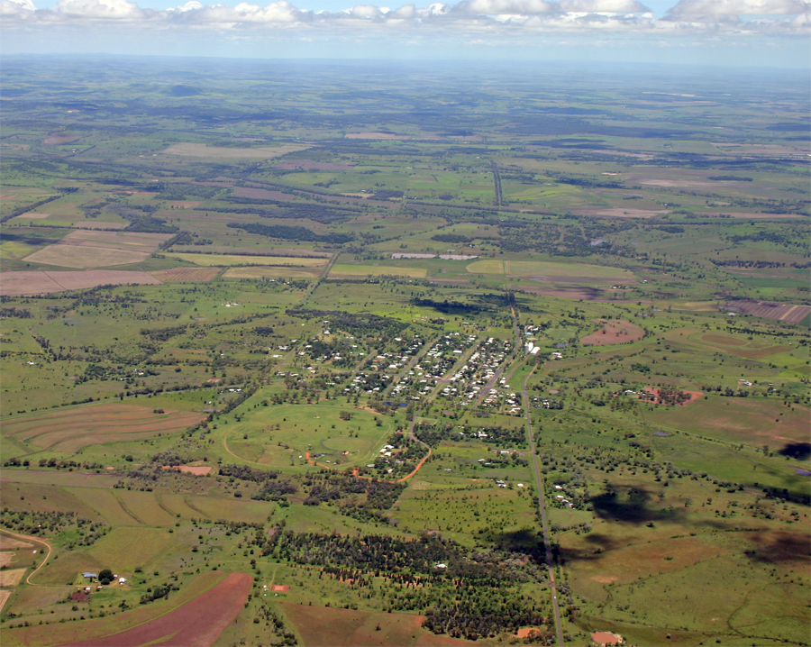 Aerial view of Bell on the Darling Downs taken by Unaipon from Luscombe Silvaire 24-7070.